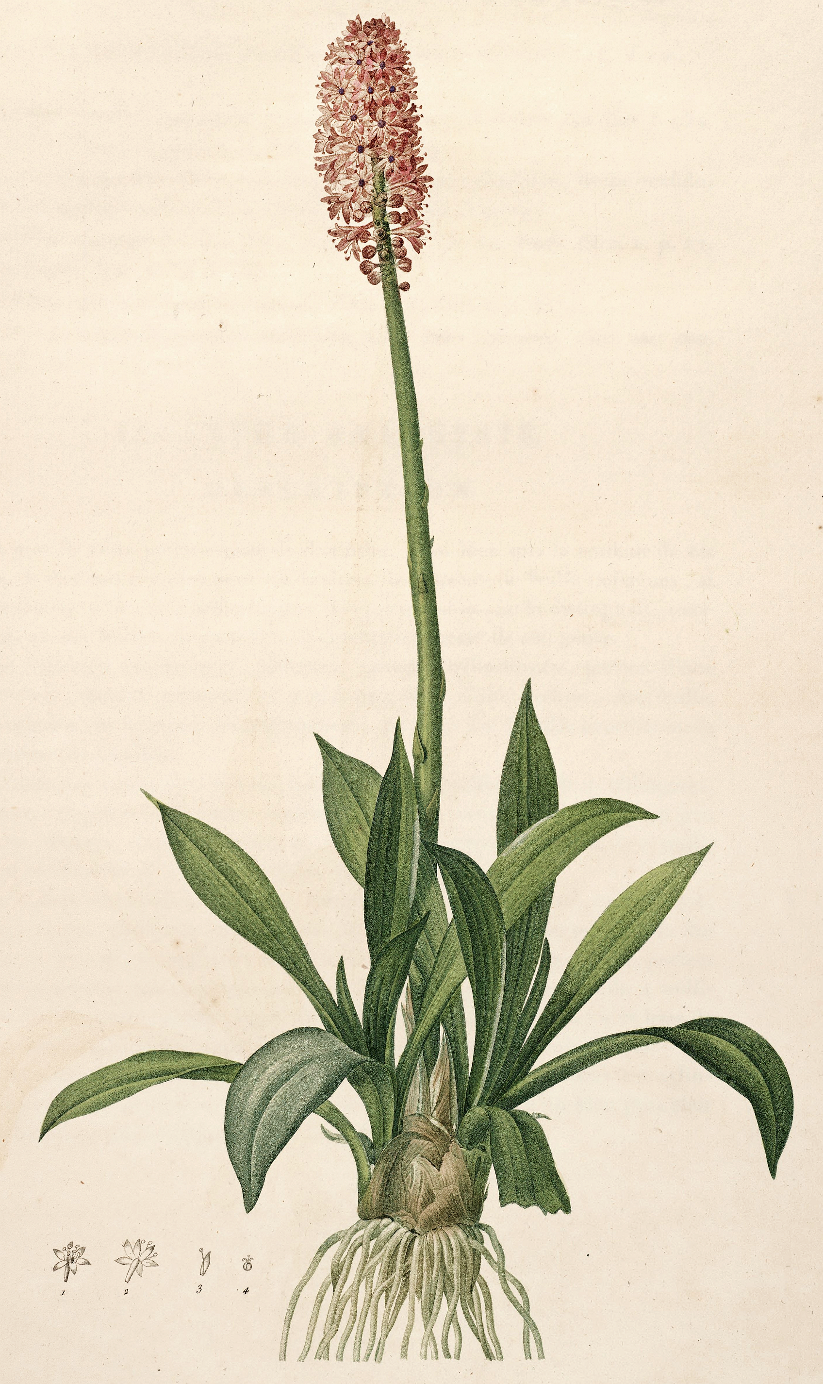 Helonias bullata